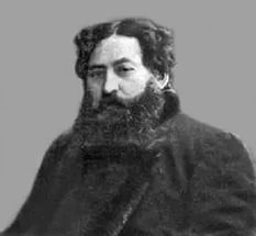 Oznobishin, Nikolay Nilovich